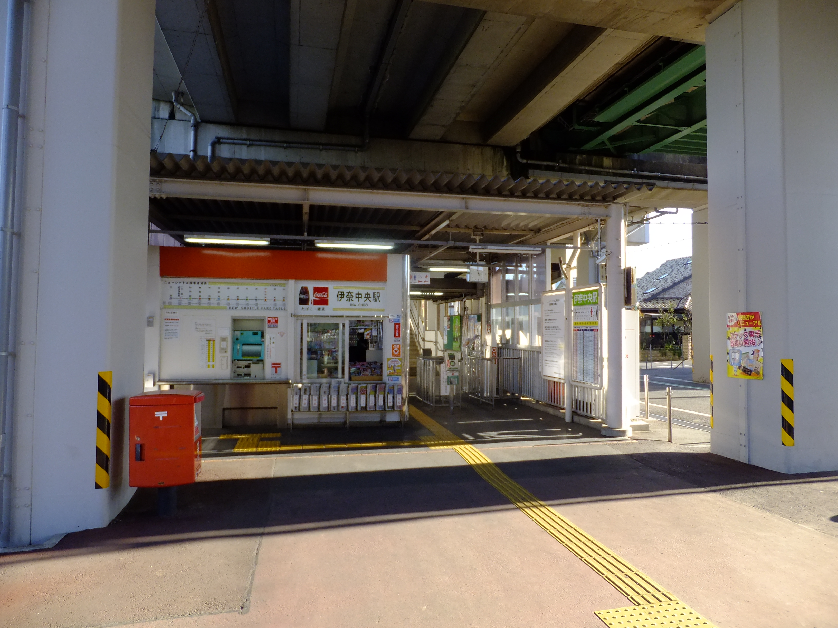 Ina-Chūō Station on the New Shuttle Line, in Ina, Saitama, Japan